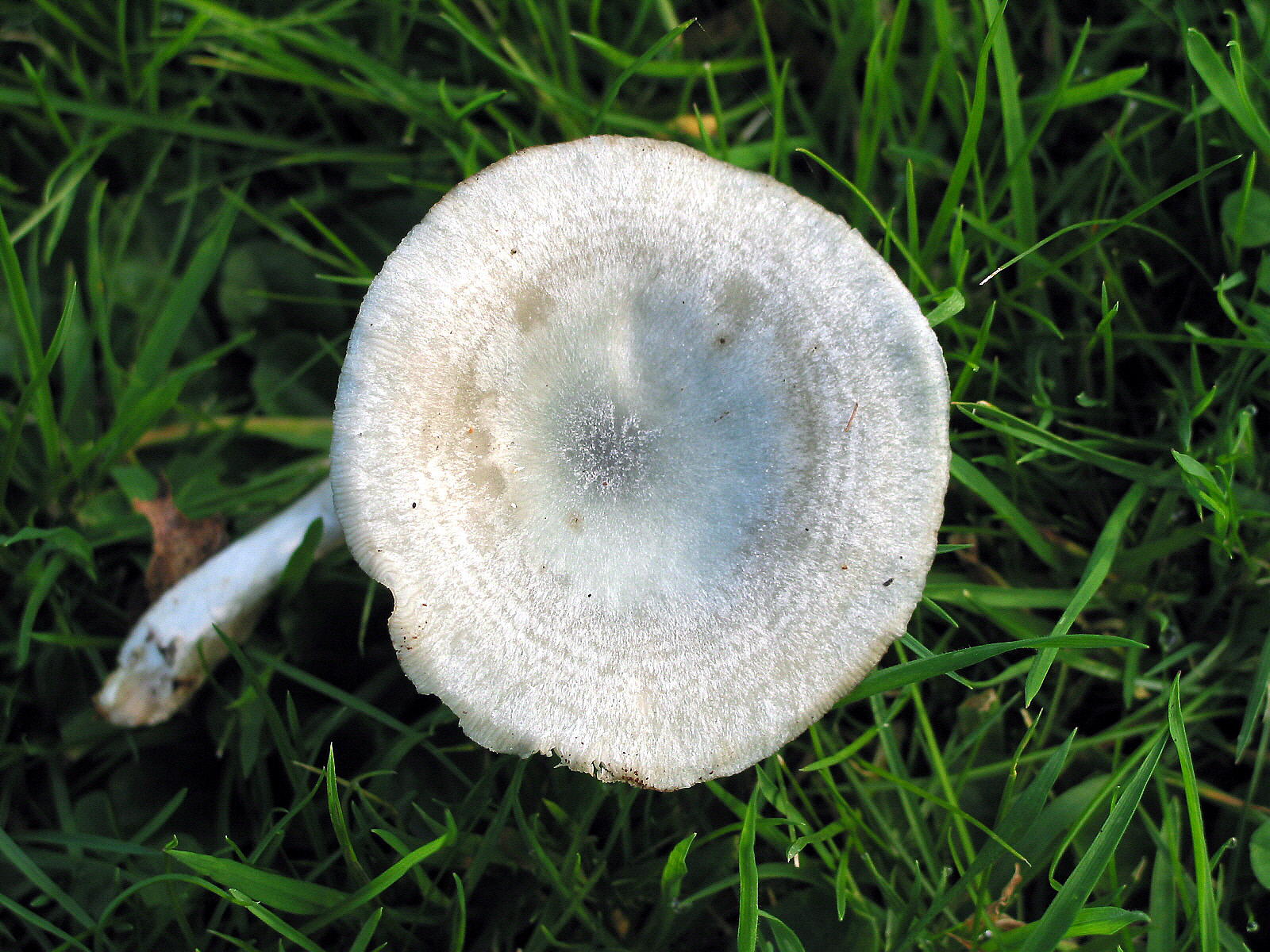 Aniseed funnel